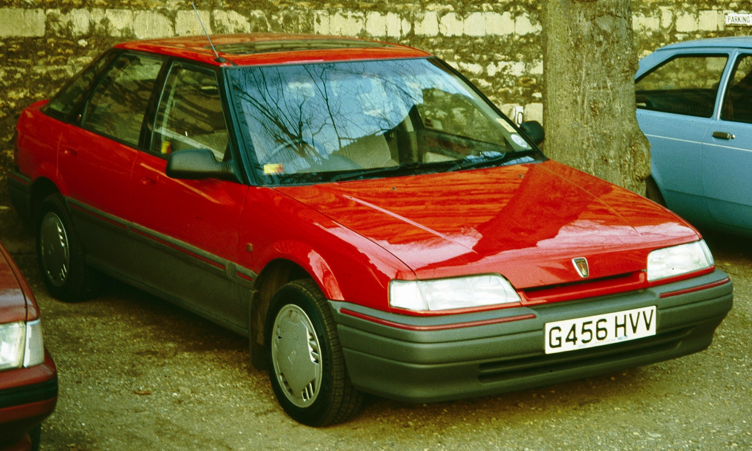 Rover 214 second shape early example